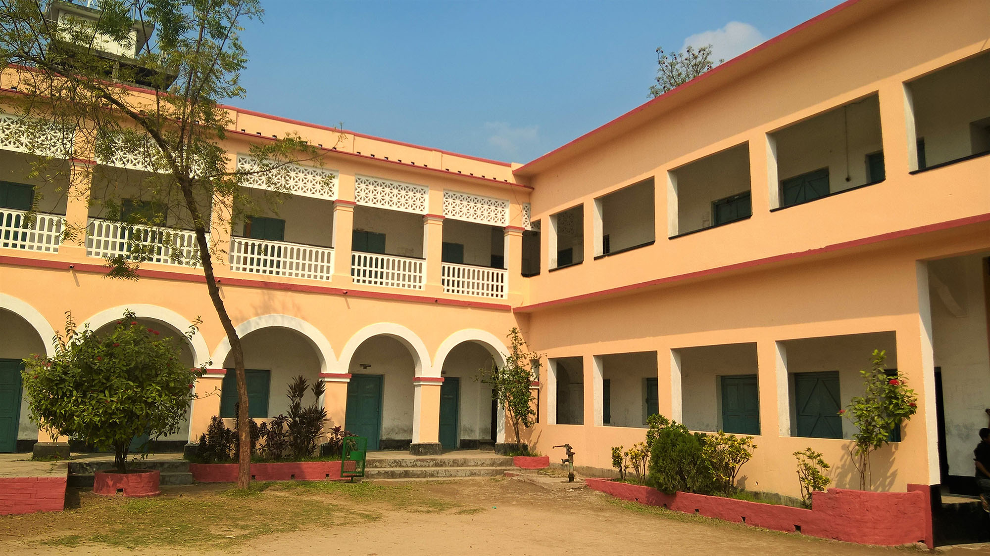 Rajshahi Loknath High School is one of the oldest school in the main town of Rajshahi.